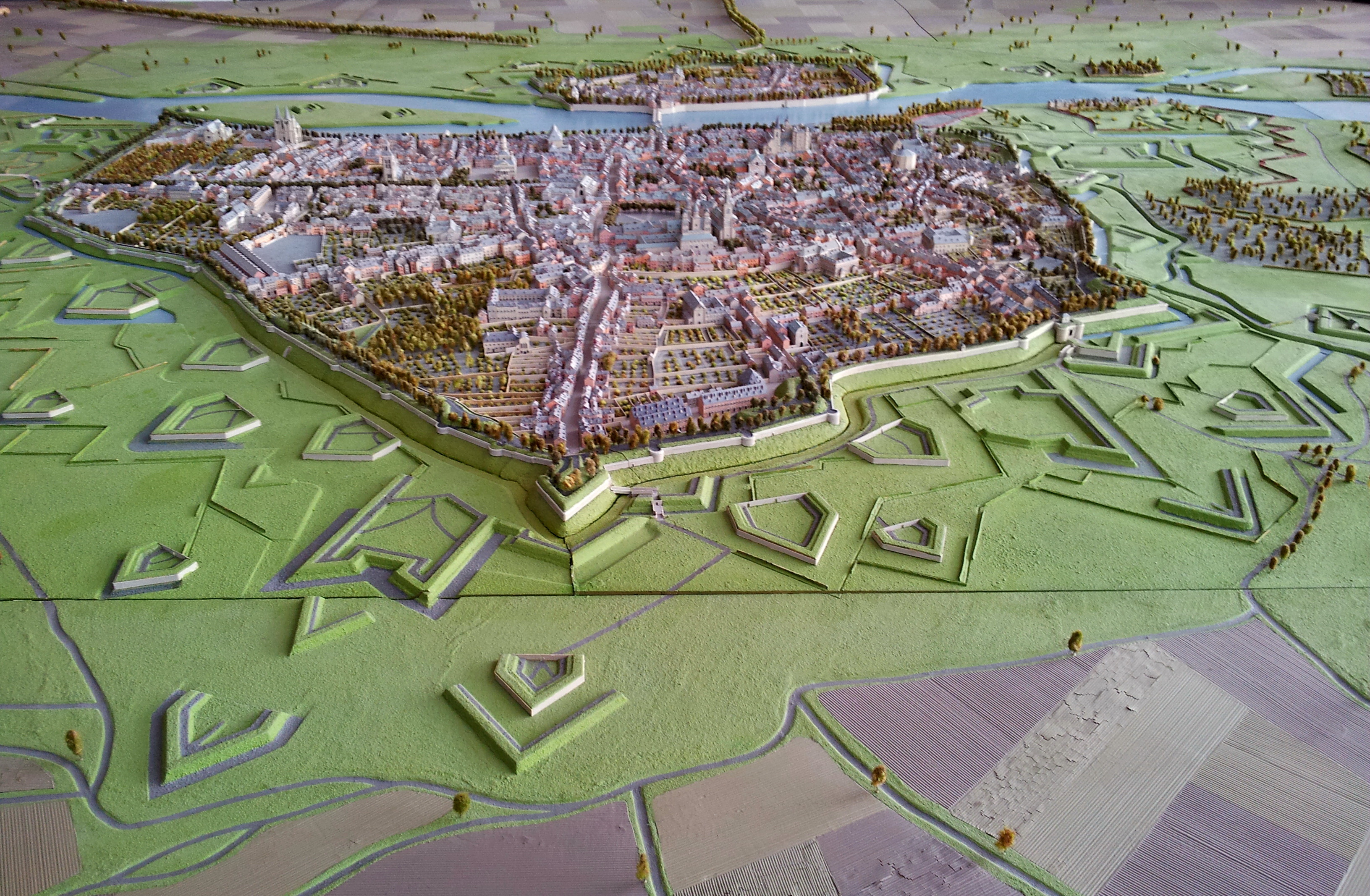 Detail of the Maquette of Maastricht with a view of the fortifications to the west of the city. The scale model was made in 1974-1982, a genuine copy of the mid-18th-century original made for King Louis XV of France (now in the Palais des Beaux-Arts in Lille). Usually only the central part is on display in Centre Céramique; once in five years the whole maquette is exhibited, as is the case here.